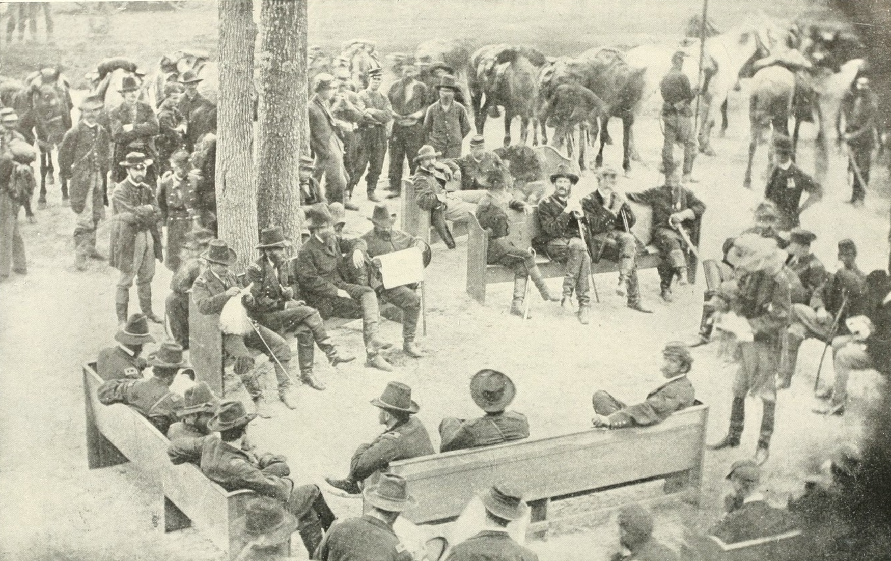 American army general U.S. Grant smokes with his back to the smaller tree as he makes the decision with his council to "fight it out". The decision was a costly one as it lead to the Union defeat at the Battle of Cold Harbor and more than 10,000 Union casualties. (The Photographic History is placing this photograph incorrectly. It was one of a famous series taken by Timothy O'Sullivan at Massaponax Church, near Guinea Station, on May 21, 1864, just after the Battle of Spotsylvania Court House. The Photographic History caption refers to Union "losses," which do not equal numbers killed.)